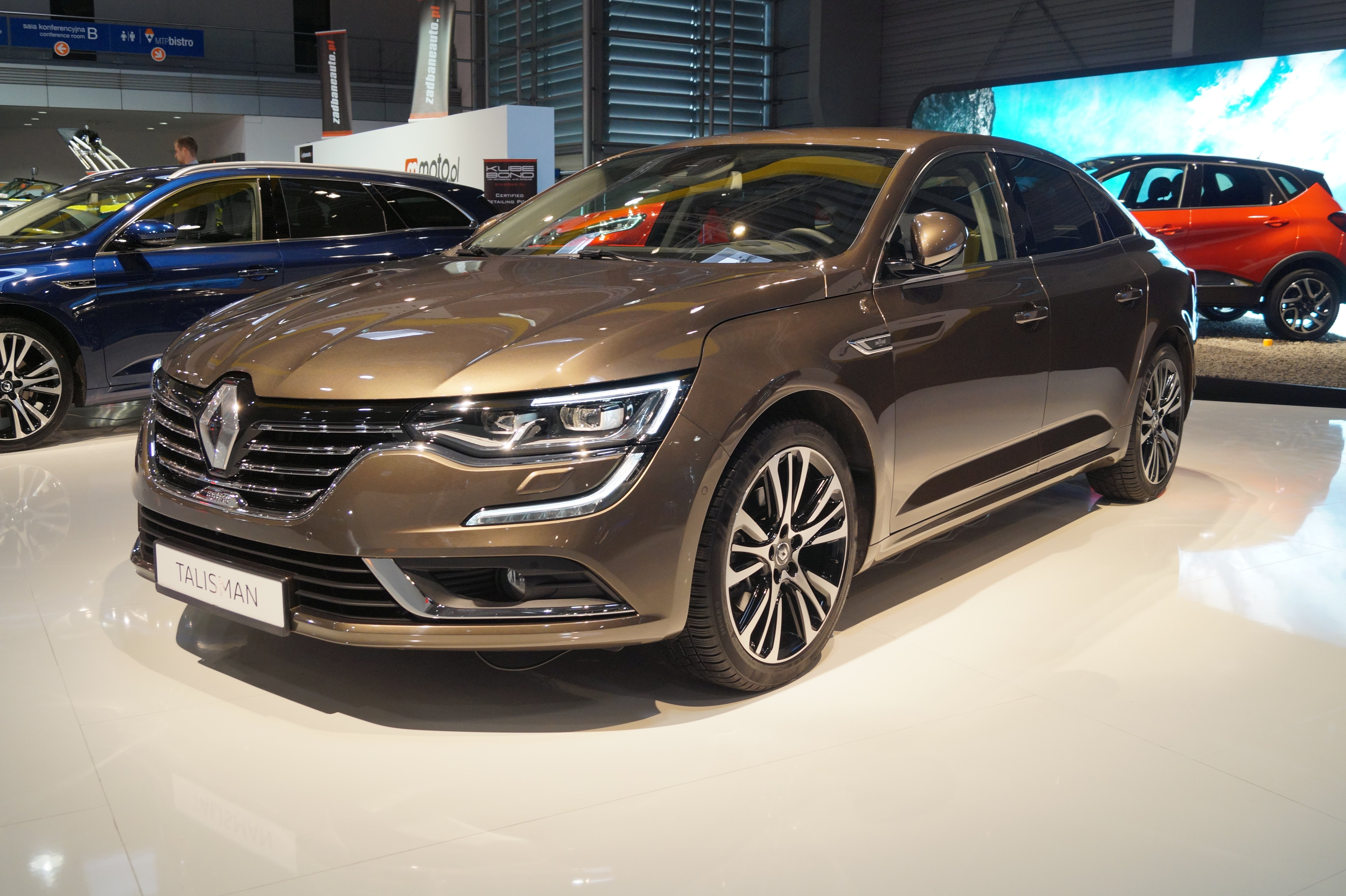 The making of this document was supported by Wikimedia Polska Association, within Wikigrant no. WG 2016-10. Przód Renault Talisman sedan na Motor Show Poznań 2016